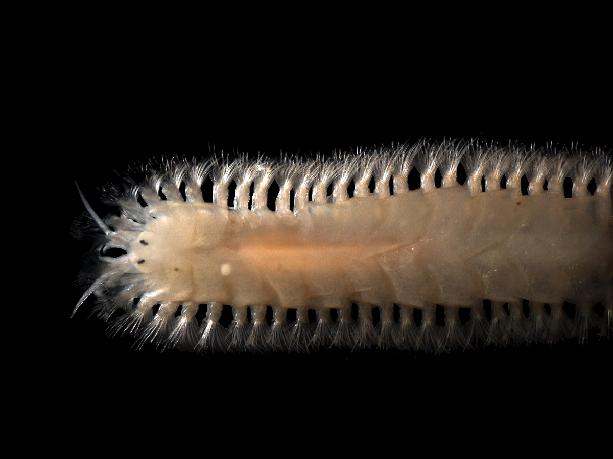 from the Belgian continental shelf.Lab image.Width = ~4 mm.